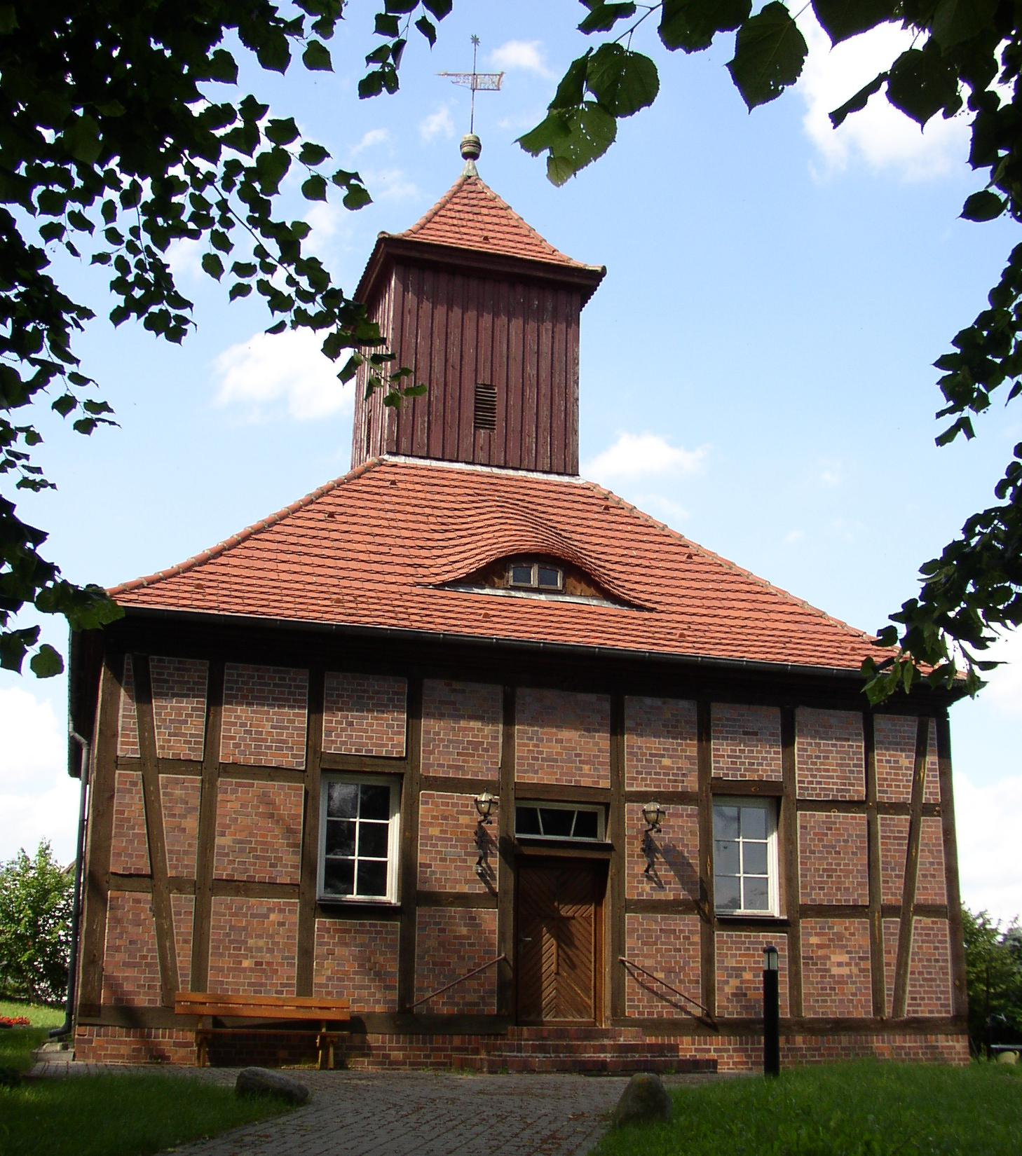 Church in Klein Behnitz, Nauen municipality, Havelland district, Brandenburg state, Germany.